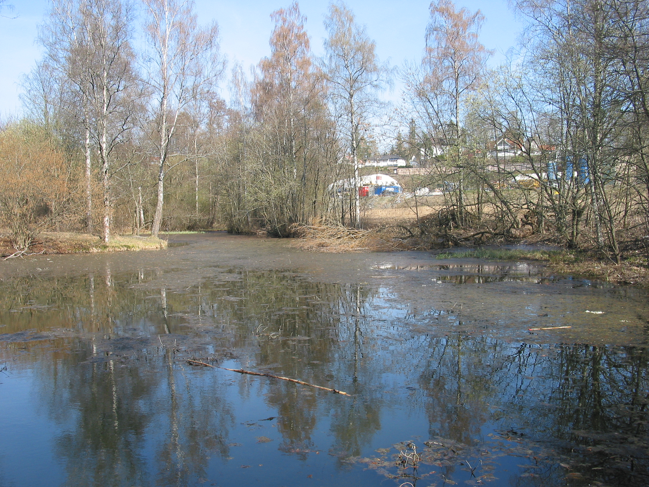 Egerdammen at Skallum. Bærum Tunnel construction site visible in the background.